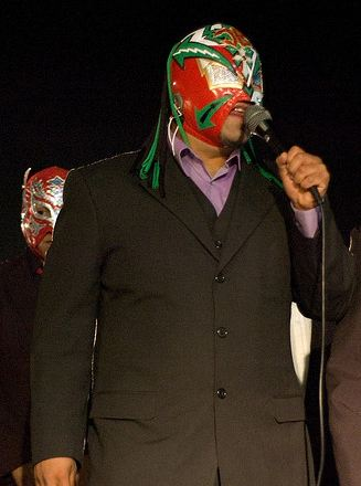 A picture of Super Crazy, cropped